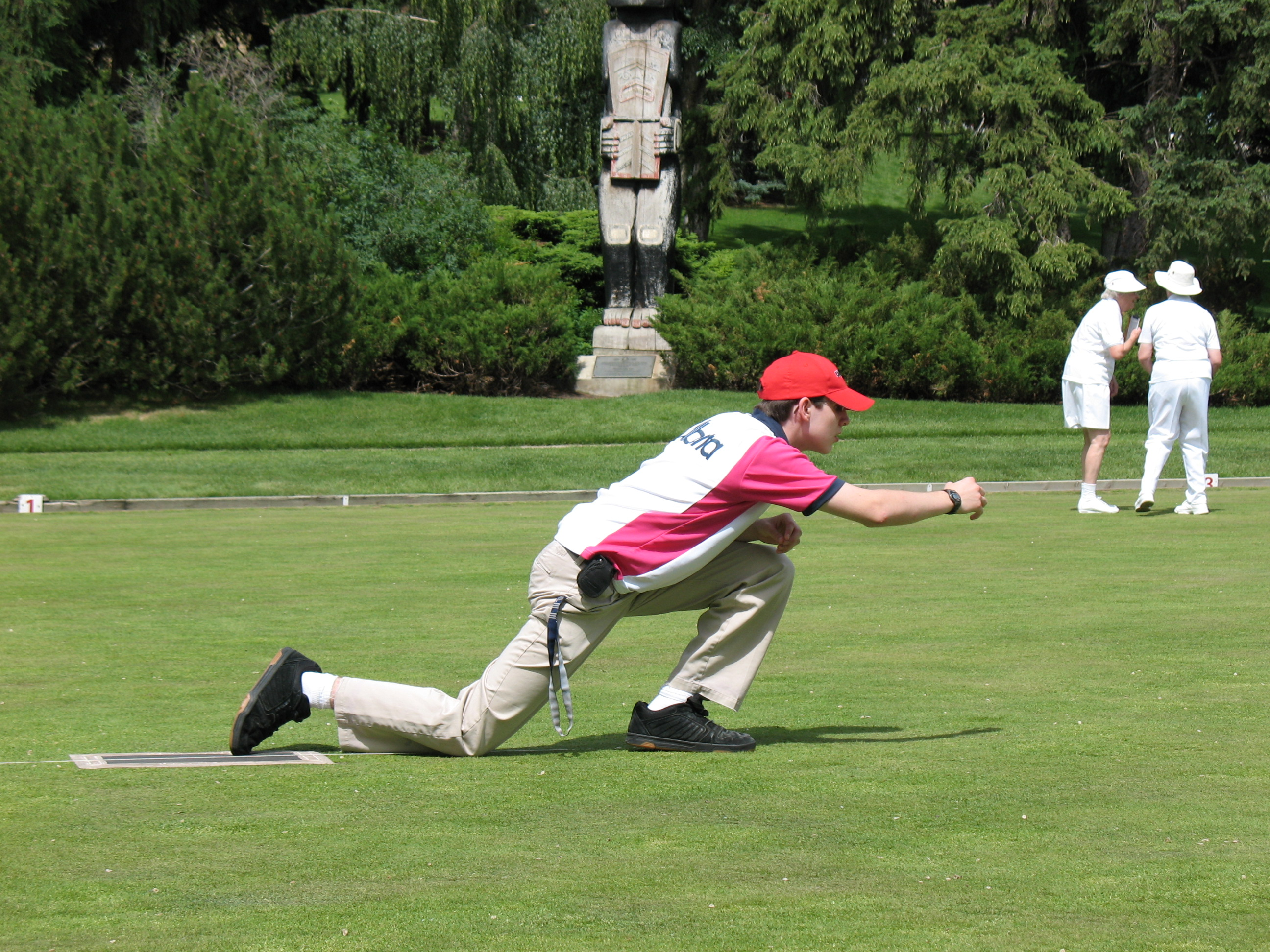 The Alberta Male Junior Champion for 2007. Taken at Royal Lawn Bowling Club in Edmonton, Alberta, Canada. Original text: My friend took this of me, and emailed me the picture.